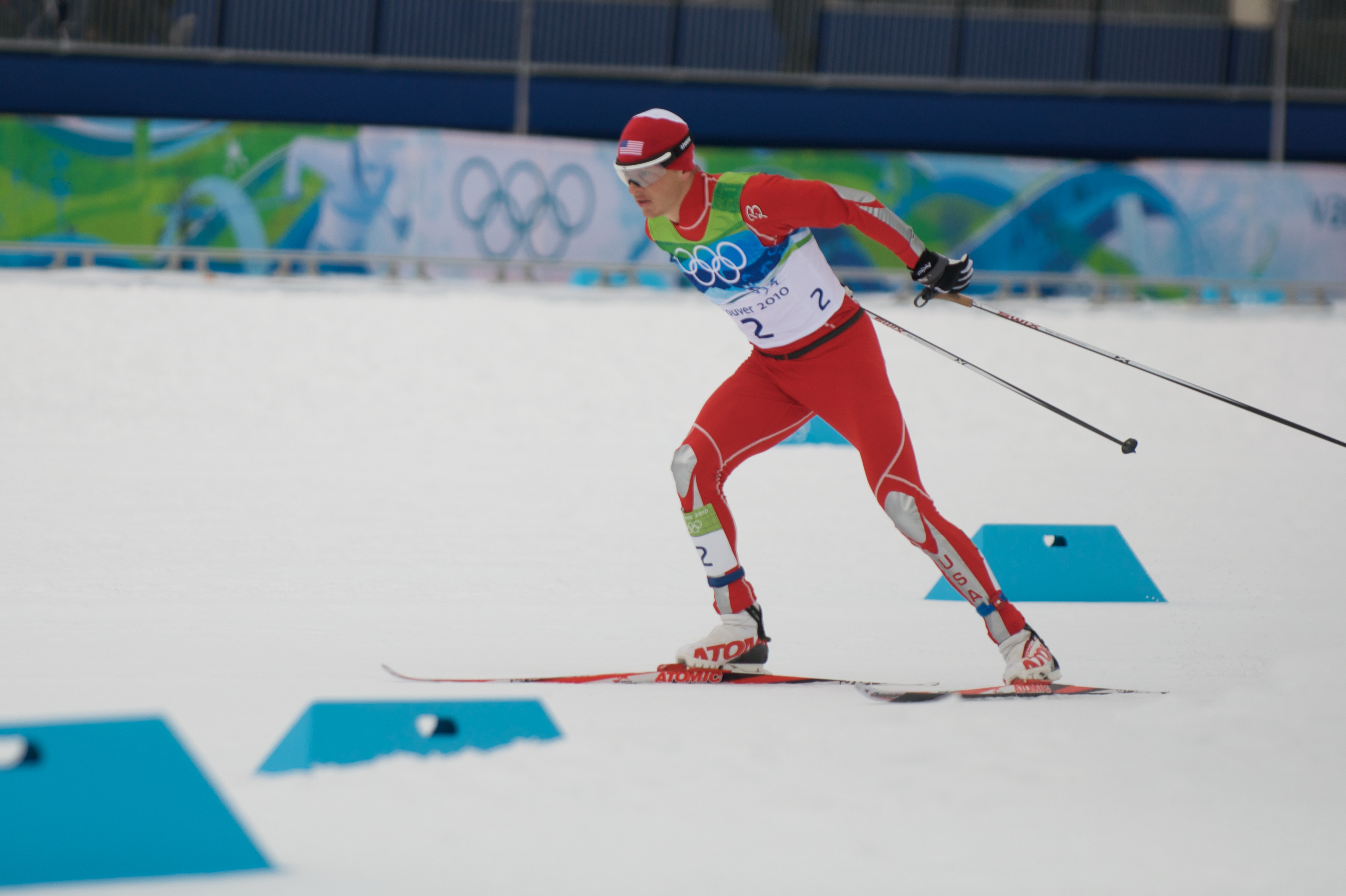 American nordic combined skier Todd Lodwick at the 2010 Winter Olympics during the individual normal hill/10 km event (he finished 4th).